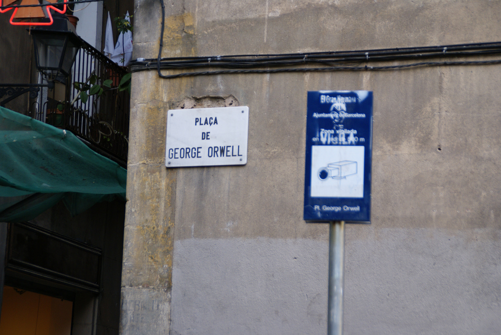 Plaza George Orwell, Barcelona.